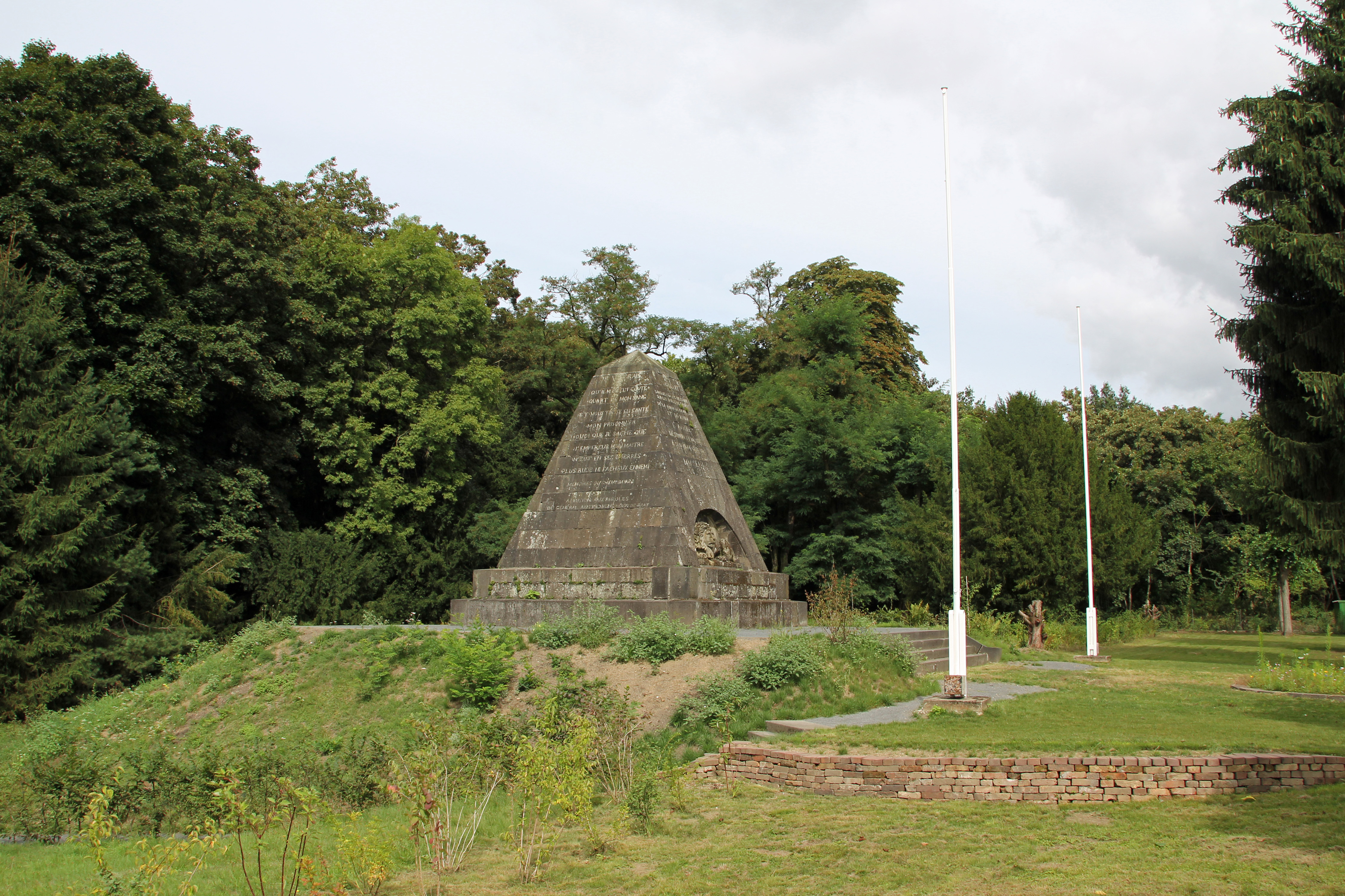 French military cemetary in Koblenz